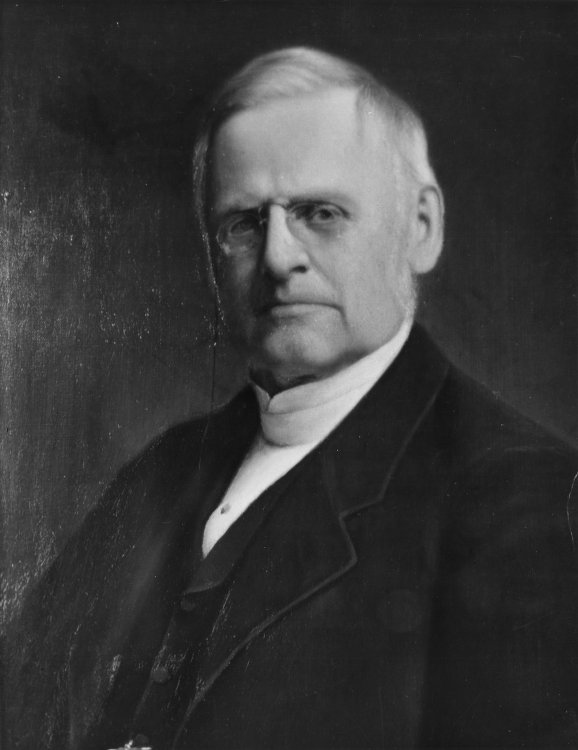 Heman Dyer, Chancellor of the University of Pittsburgh 1843-1849 (1886 by Telemaque E. Ksergian?)